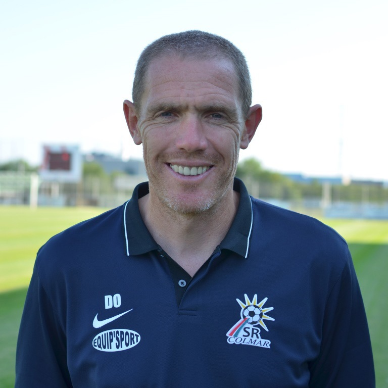 SR Colmar